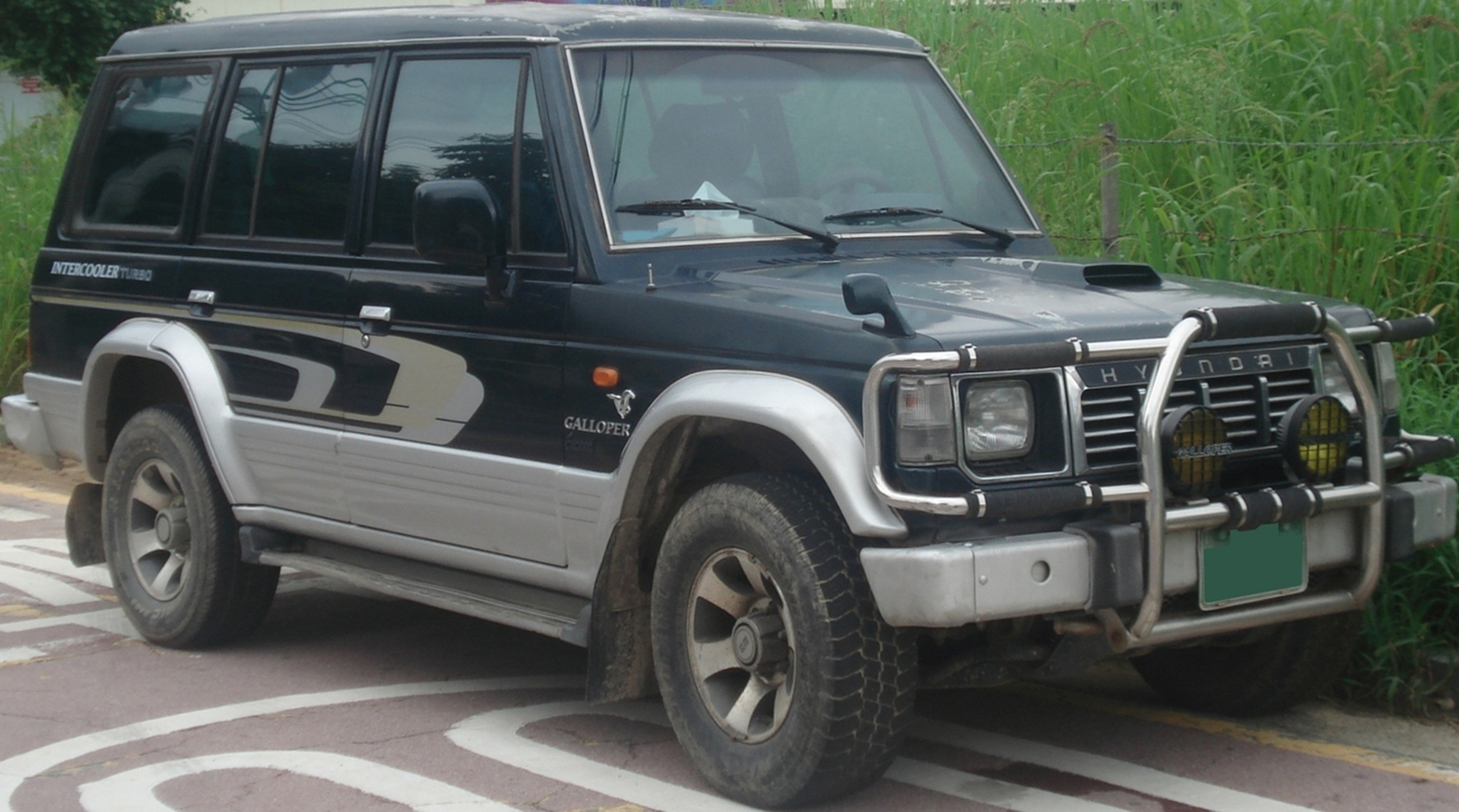 Hyundai Galloper